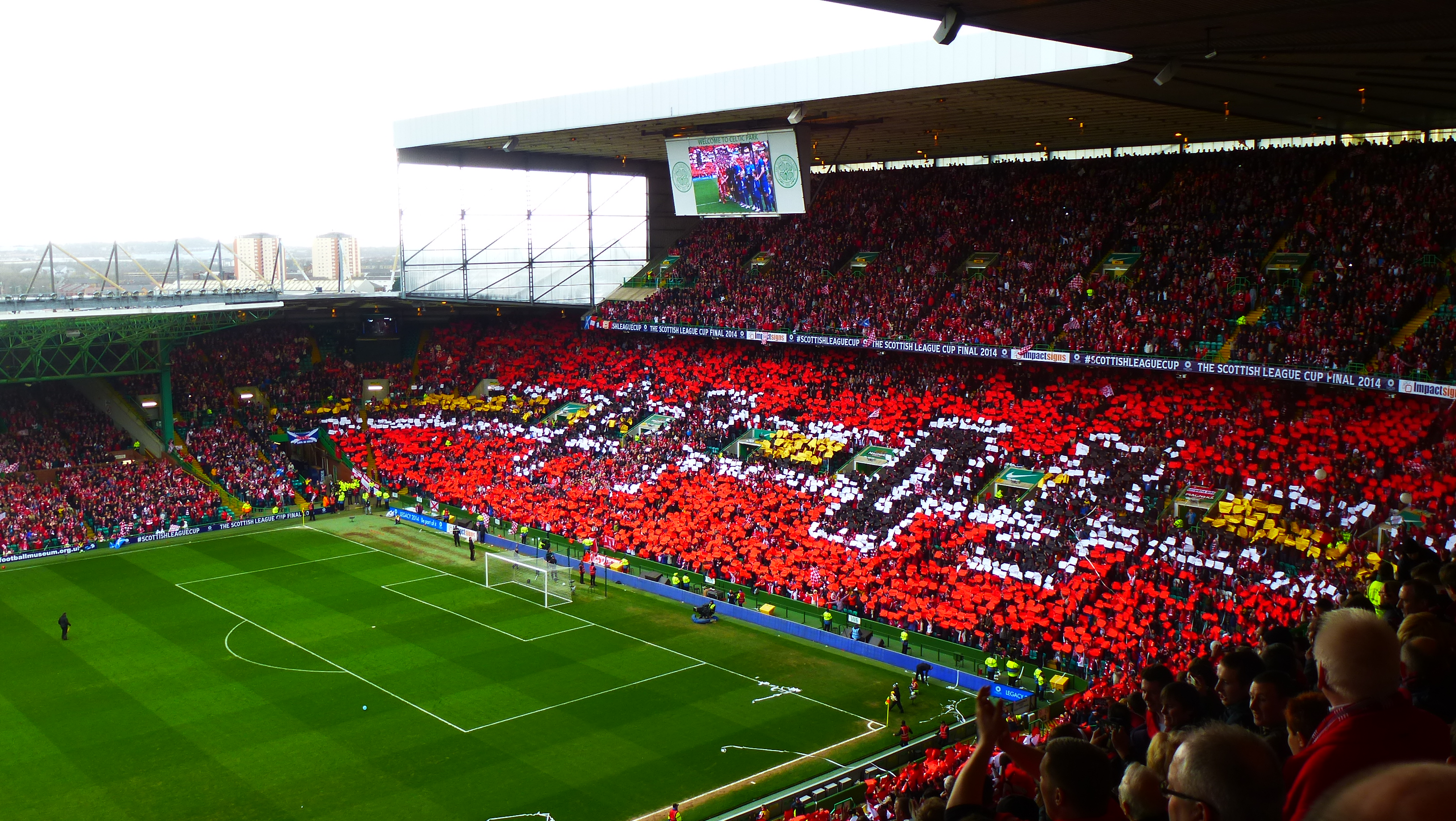 Aberdeen fan display ahead of the Scottish League Cup final 2014